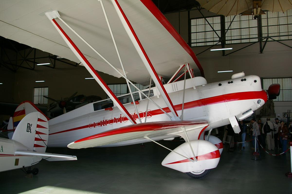 Replica 1:1 of CASA-Breguet XIX Super Bidon named "Cuatro Vientos" wich the spanish airmen Mariano Barberan de Tros Ilarduya and Joaquin Collar fly from Sevilla (Spain) to Camaguey (Cuba) the June 10th of 1933. Image taked at Museo del Aire in Cuatro Vientos Air Base, Madrid, Spain